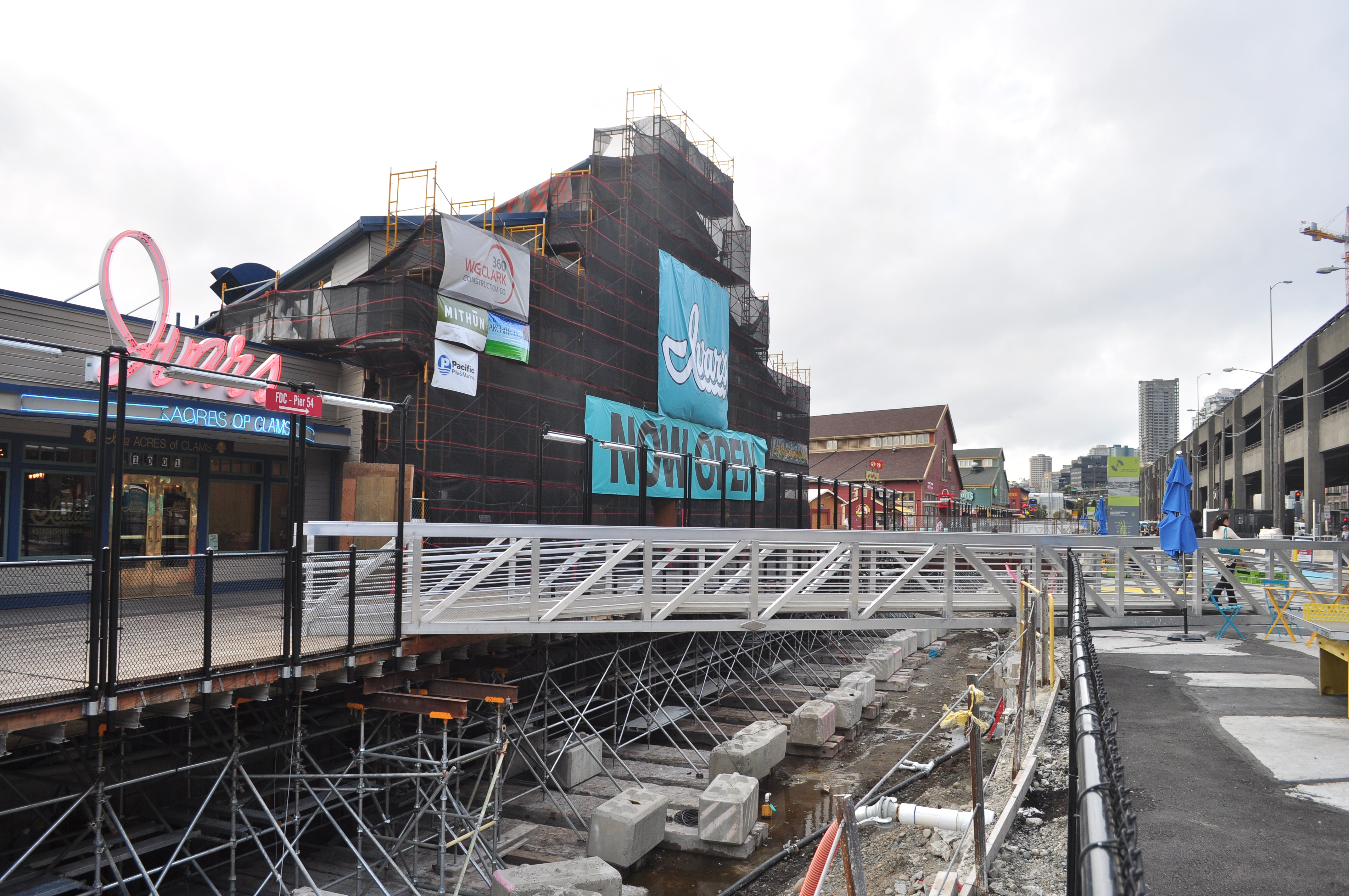 Ivar's Acres of Clams during 2015 replacement of Alaskan Way Seawall, Seattle, Washington, U.S.